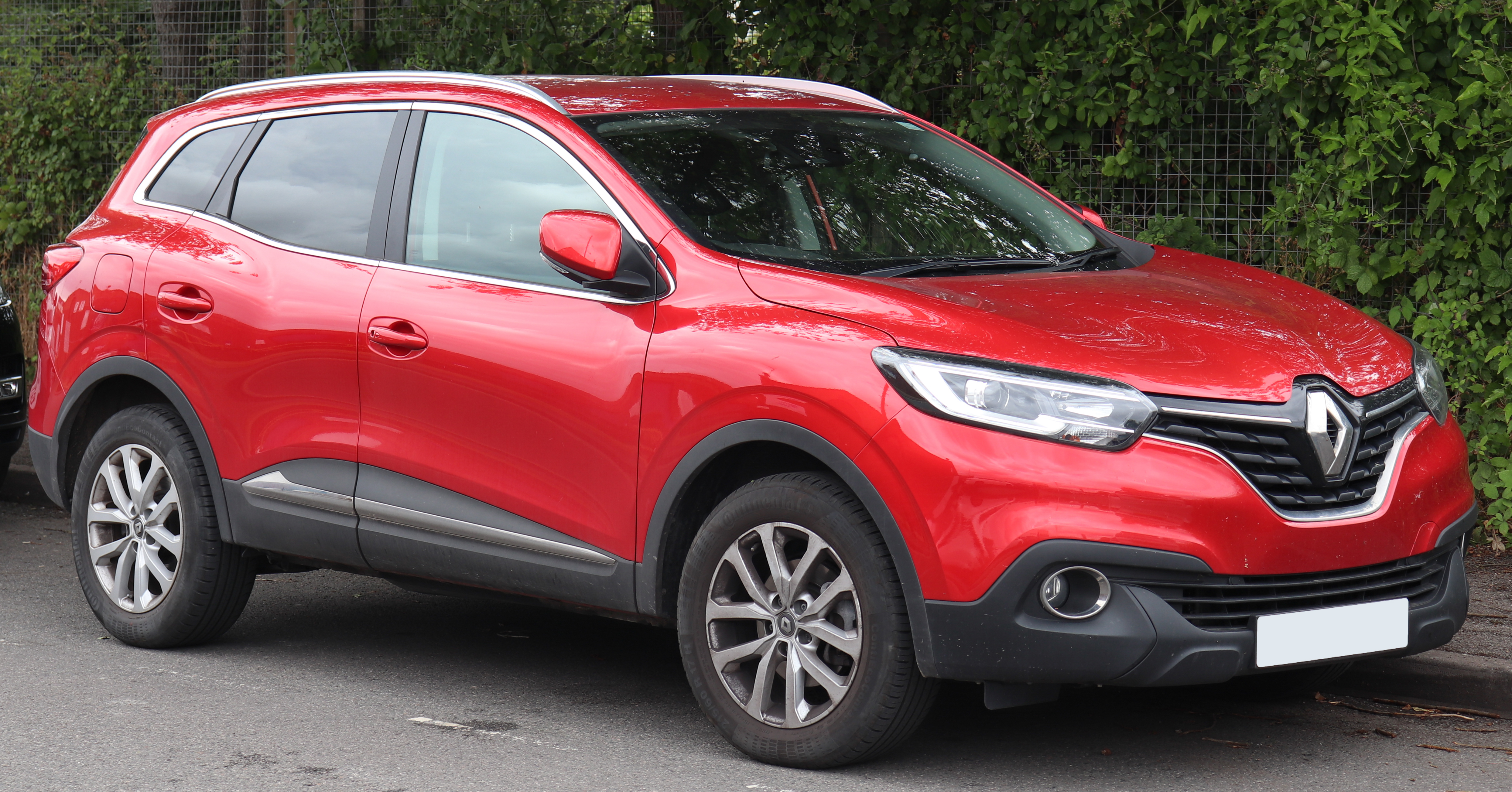 2016 Renault Kadjar Dynamique NAV DCi 1.5 Front Taken in Stratford-upon-Avon